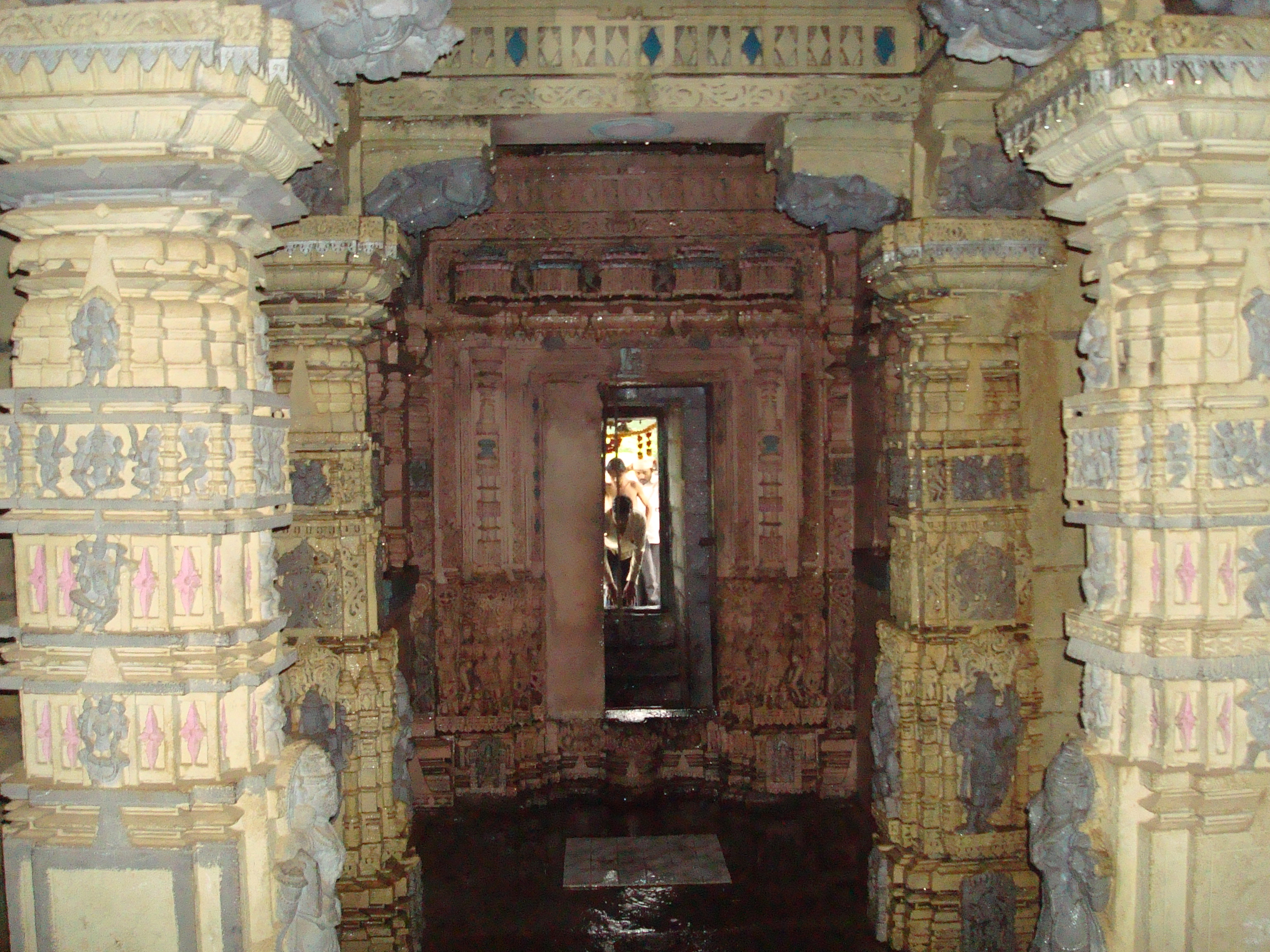 Amruteshwar temple at Ratanwadi near Ratangad